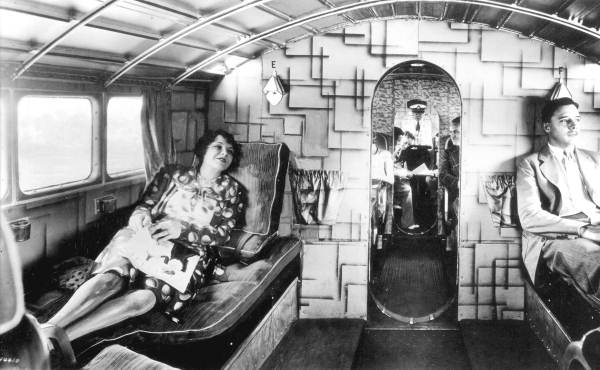 Local call number: RC06976 Title:Passenger cabin of a New York, Rio & Buenos Aires Line Consolidated Commodore Physical descrip: 1 photoprint: b&w; 8 x 10 in. Series title: (Reference collection) Date: Photographed on April 28, 1930. Repository: 500 S. Bronough St., Tallahassee, FL 32399-0250 USA. Contact: 850.245.6700. Persistent URL